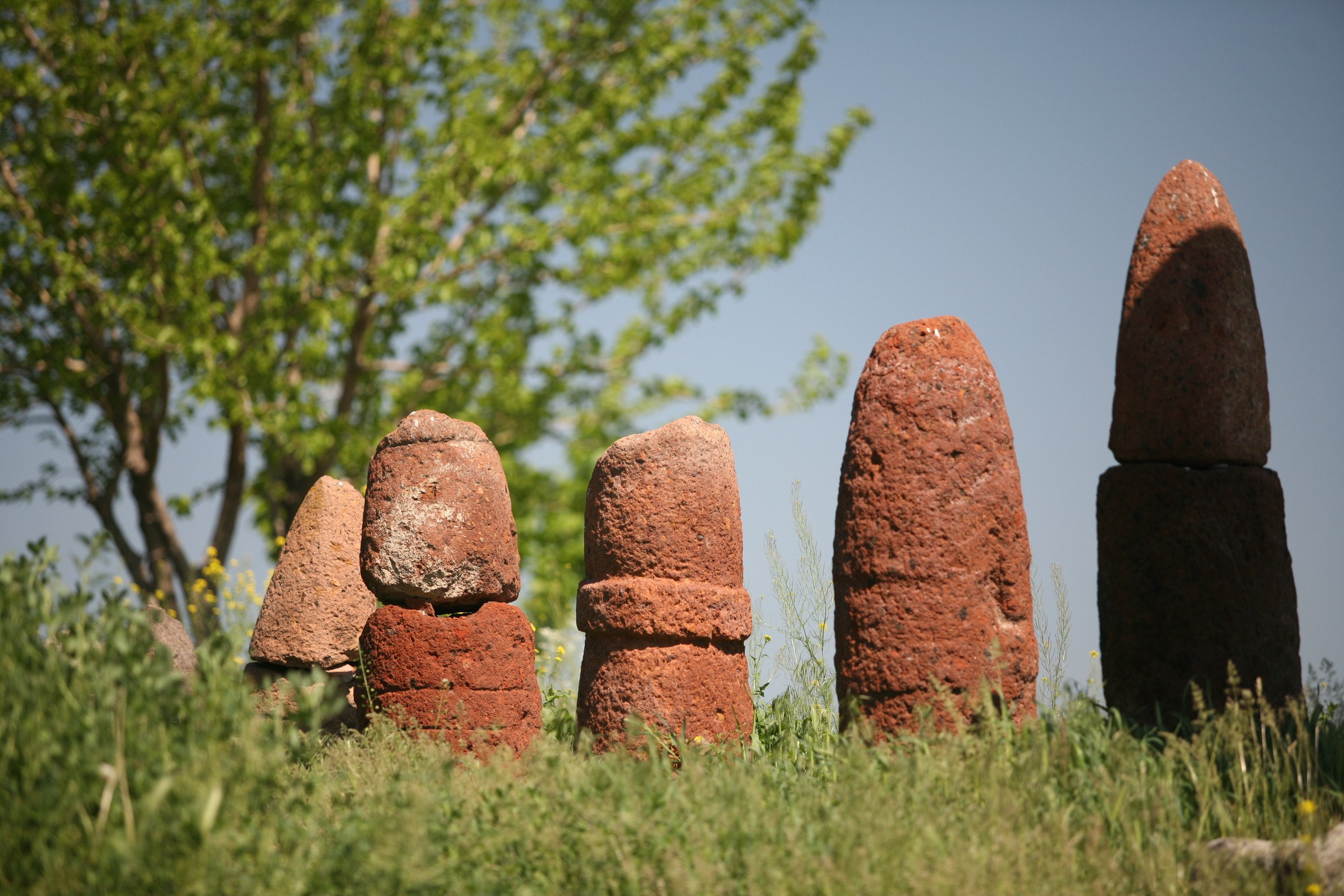 Vishap and phalluses of Metsamor hill